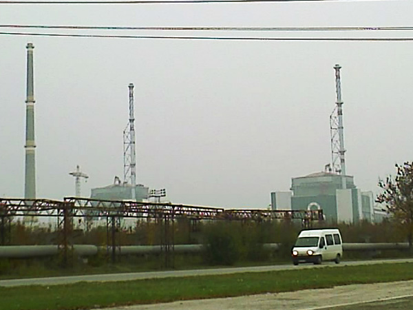 Kozloduy Nuclear Power Plant, Blocks 5-6, Bulgaria.